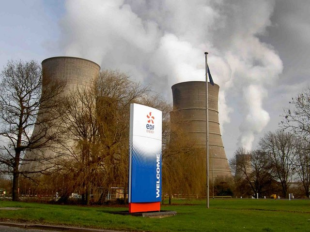 EDF welcome, West Burton Power Station